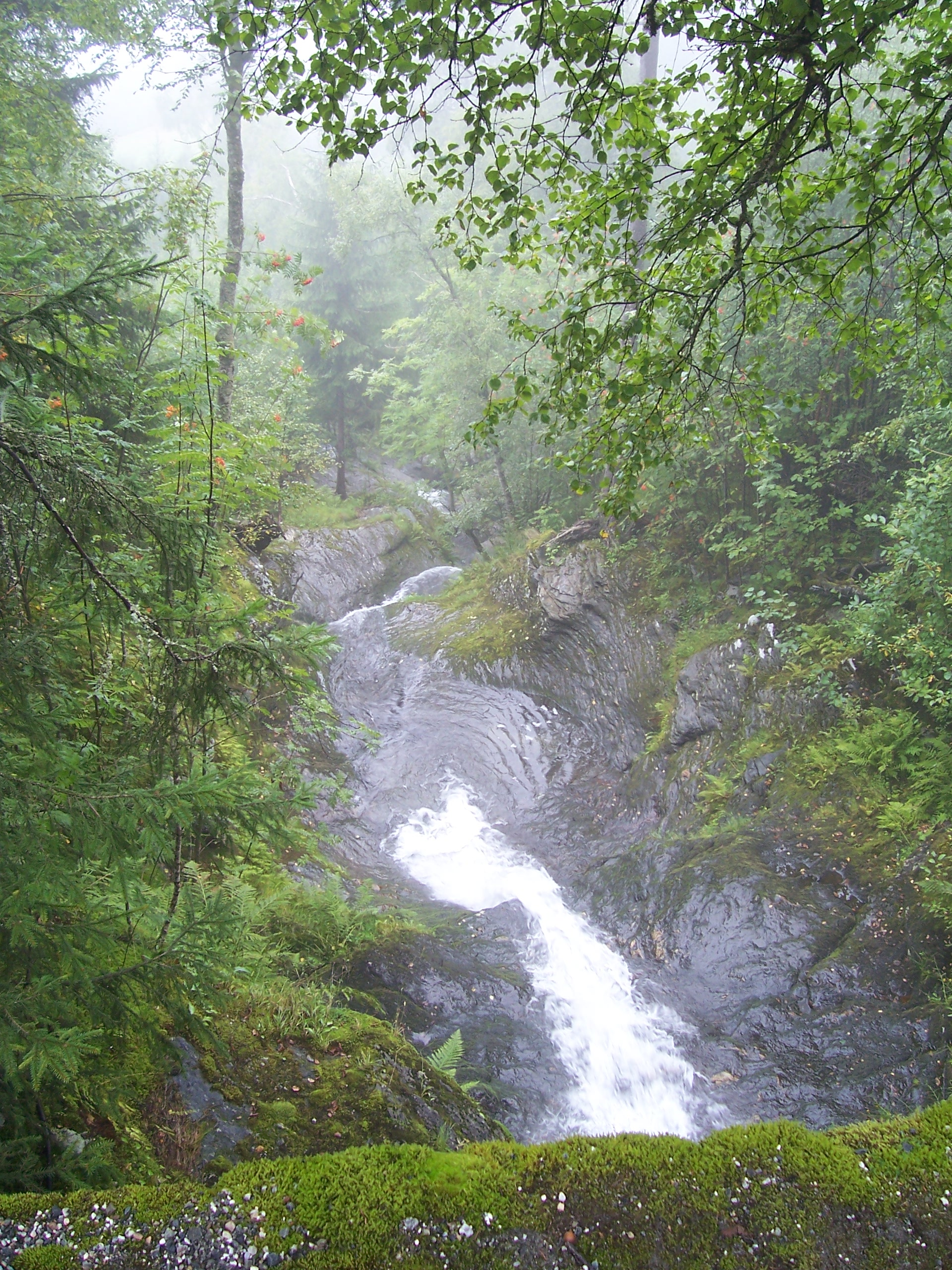 Waterfall under a road in a rain forest of the west coast of Norway